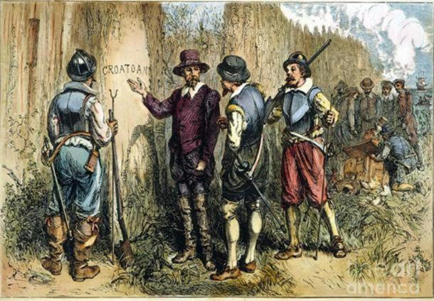 Painting by Englishman John White. Sir Walter Raleghi's 1590 Expedition to Roanoke Island to find the Lost Colony uncovered 'Croatoan' carved on a tree. This may be in reference to the Croatan island or people.